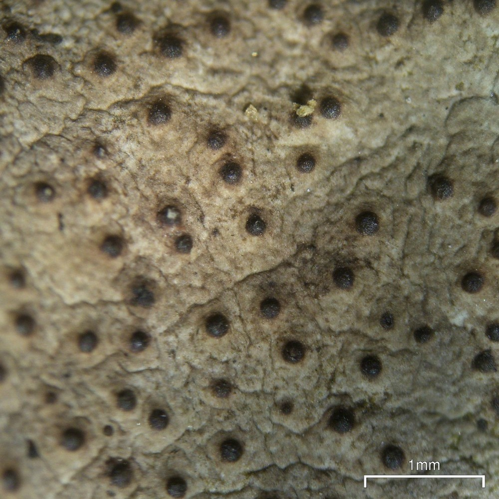 Dermatocarpon miniatum 20091027.185 US, NC, Nantahala Gorge (close-up of perithecia)